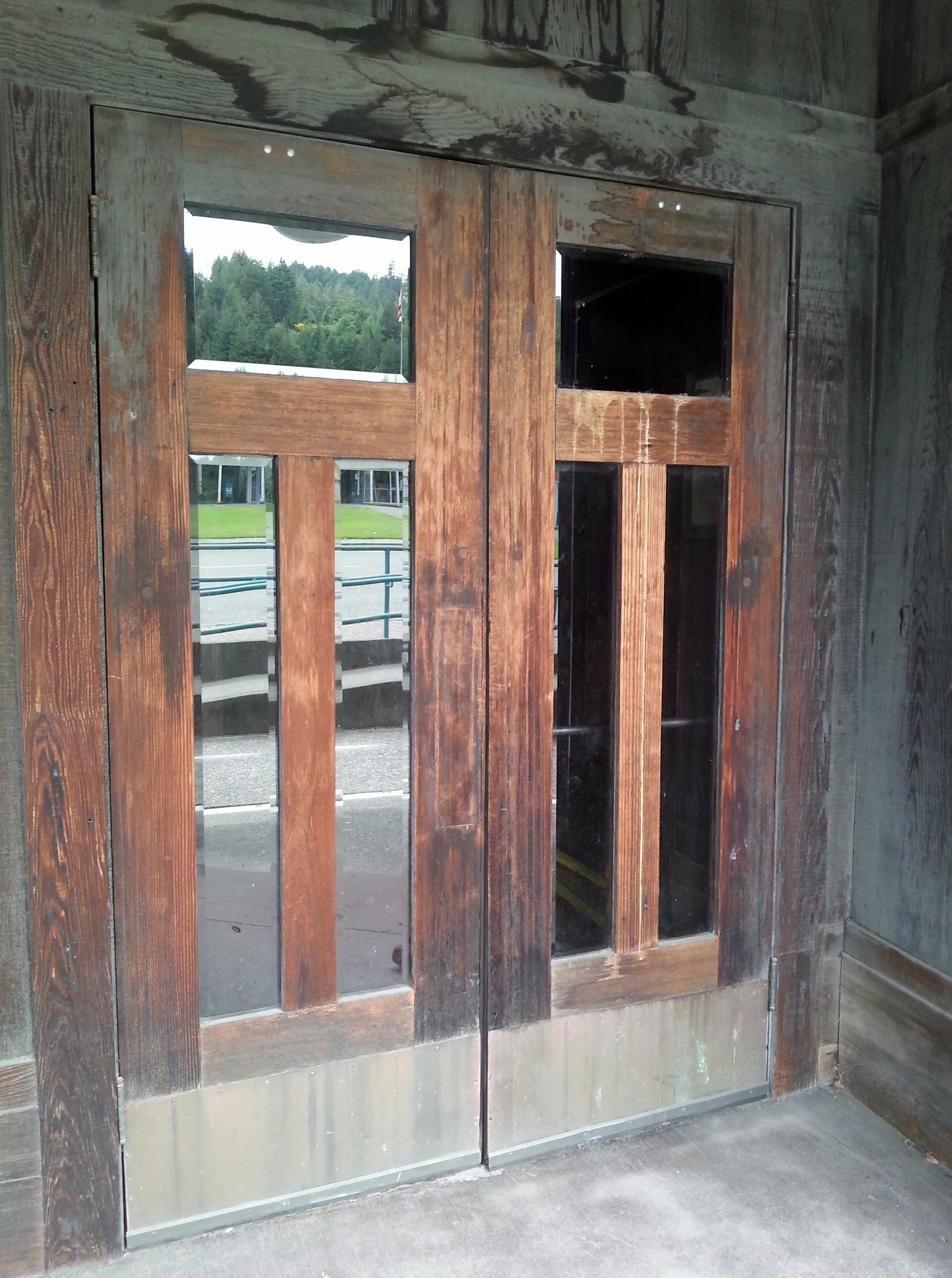 The door of the Winema Theater in Scotia, California. The Winema Theater was designed by Alfred Henry Jacobs, first performance on November 20, 1920. Built of redwood, seated 600 originally. The building is 128 feet long, 58 feet wide and 45 feet high. It was fully renovated in 2000-2002 with new sound system, lights and seating.